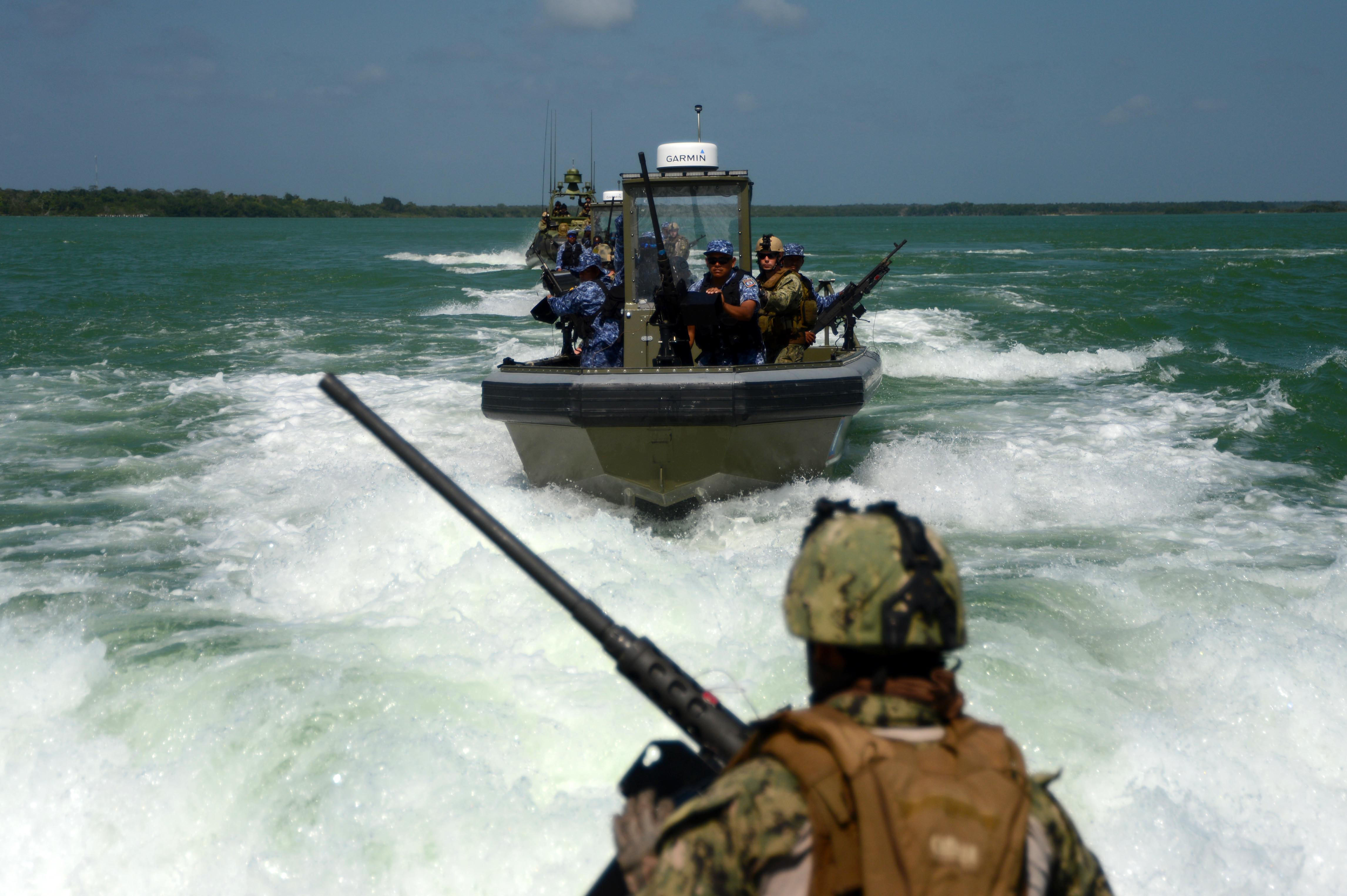 COROZAL, Belize (Feb. 25, 2013) A U.S. Navy Sailor pulls rear security on a rivercraft during joint river operations as part of Southern Partnership Station 2013 in the U.S. 4th Fleet area of responsibility. Southern Partnership Station is an annual deployment that exchanges training and expertise between U.S. military and civilian agencies with their counterparts in Central and South America and the Caribbean. (U.S. Air Force photo by Staff Sgt. Ashley Hyatt/Released) 130225-F-WH920-724 navylive.dodlive.mil